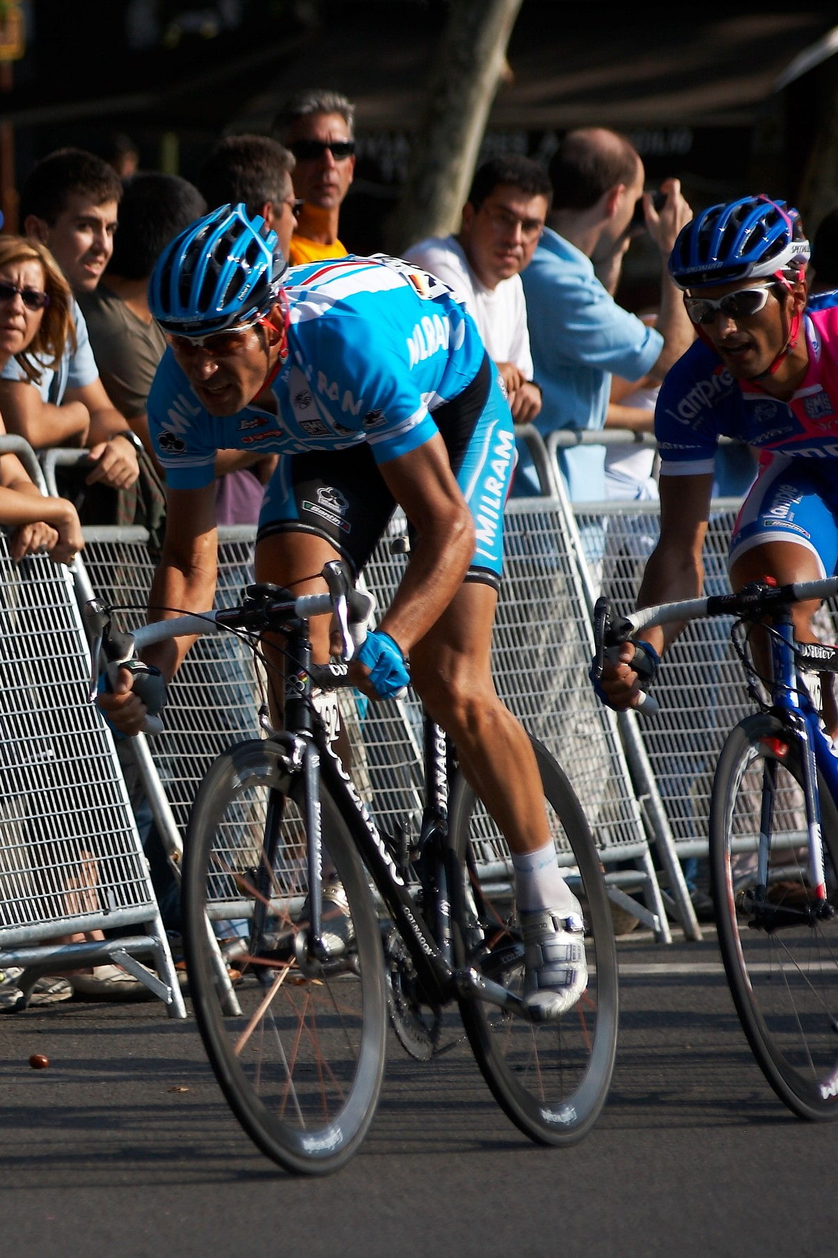 Erik Zabel, 2007 Vuelta a España, Madrid, Spain.